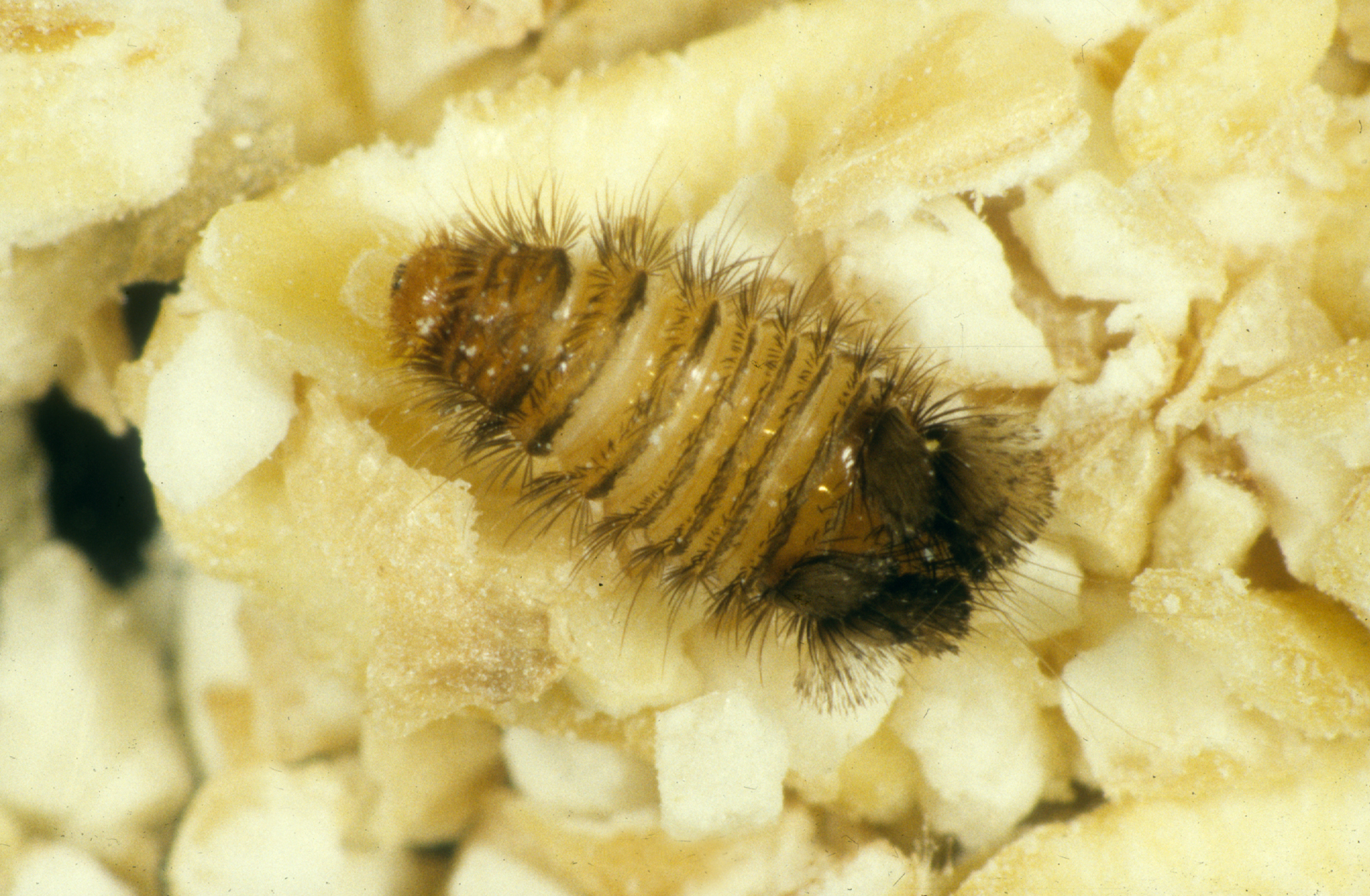 The larvae stage of a museum beetle, also known as the varigated carpet beetle. Anthrenus sp. For image of the beetle please see BE0997. This insect is a pest in stored grains.